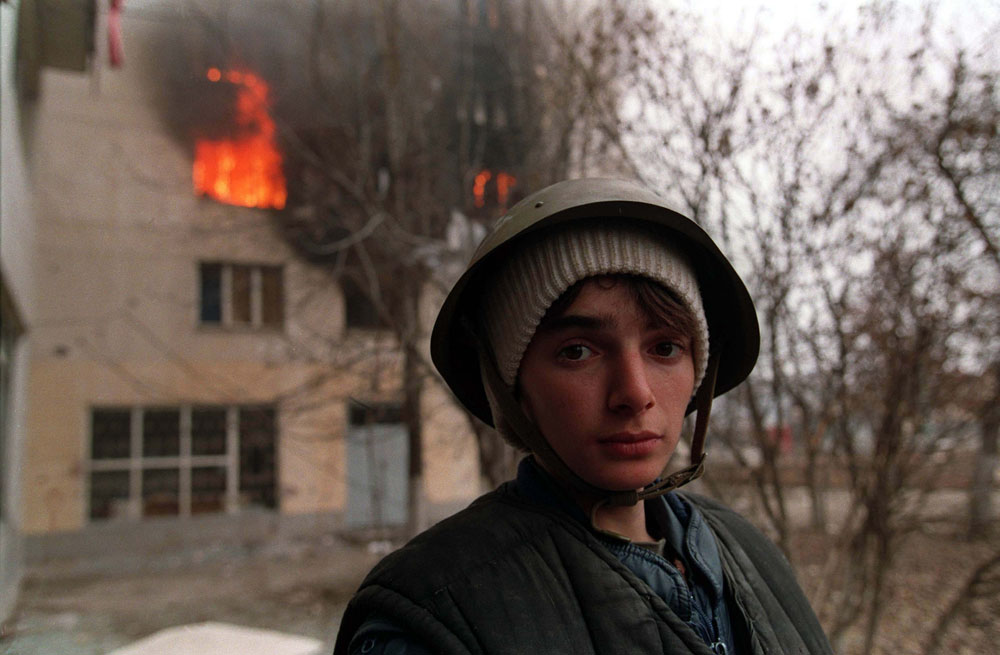 A Chechen stands in the street during the battle for Grozny.